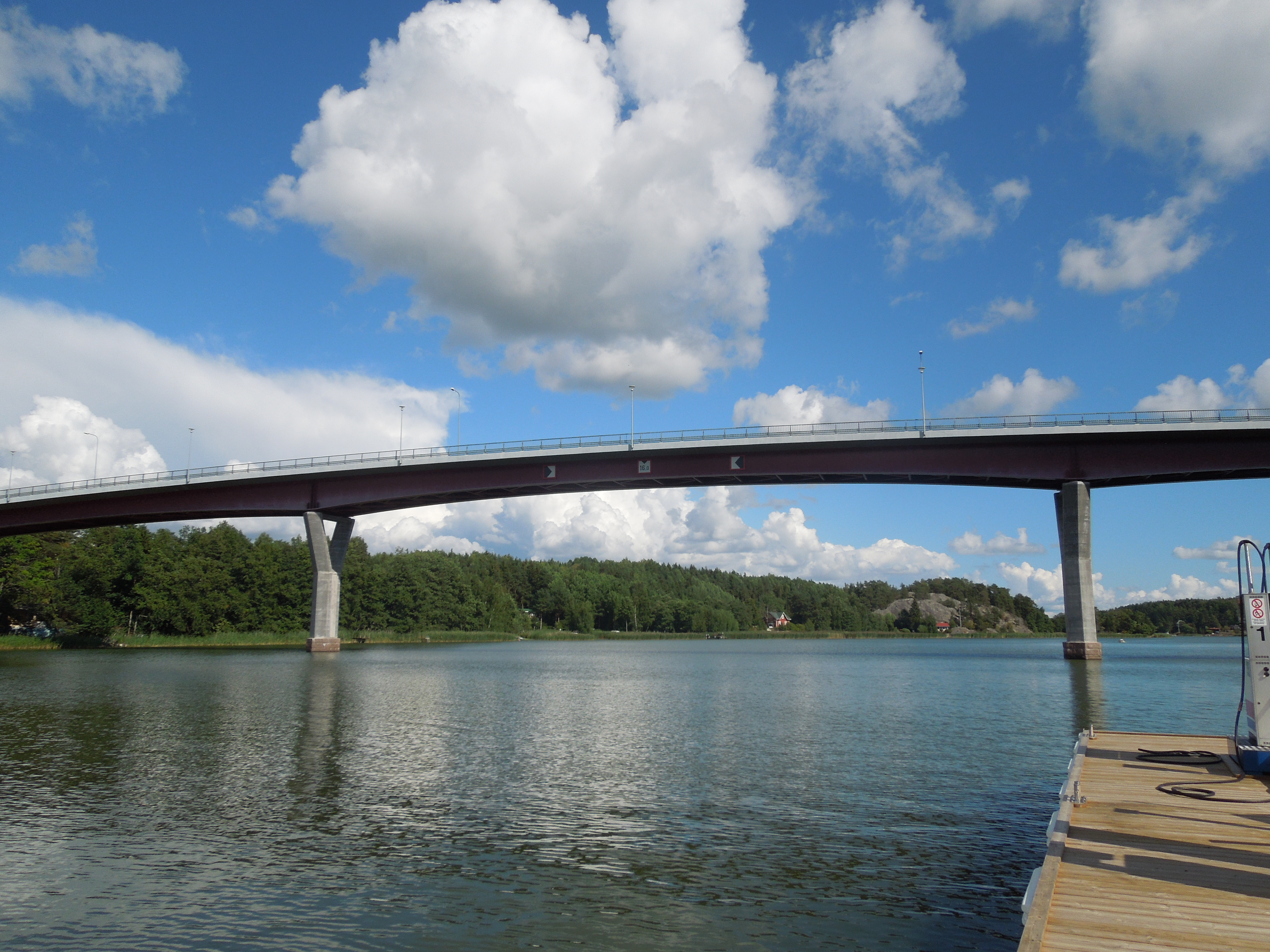 Kirkonsalmi Bridge